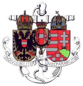 Coat of arms of the Austro-Hungarian Navy, designed in ? (see below) in order to replace an older coat of arms.